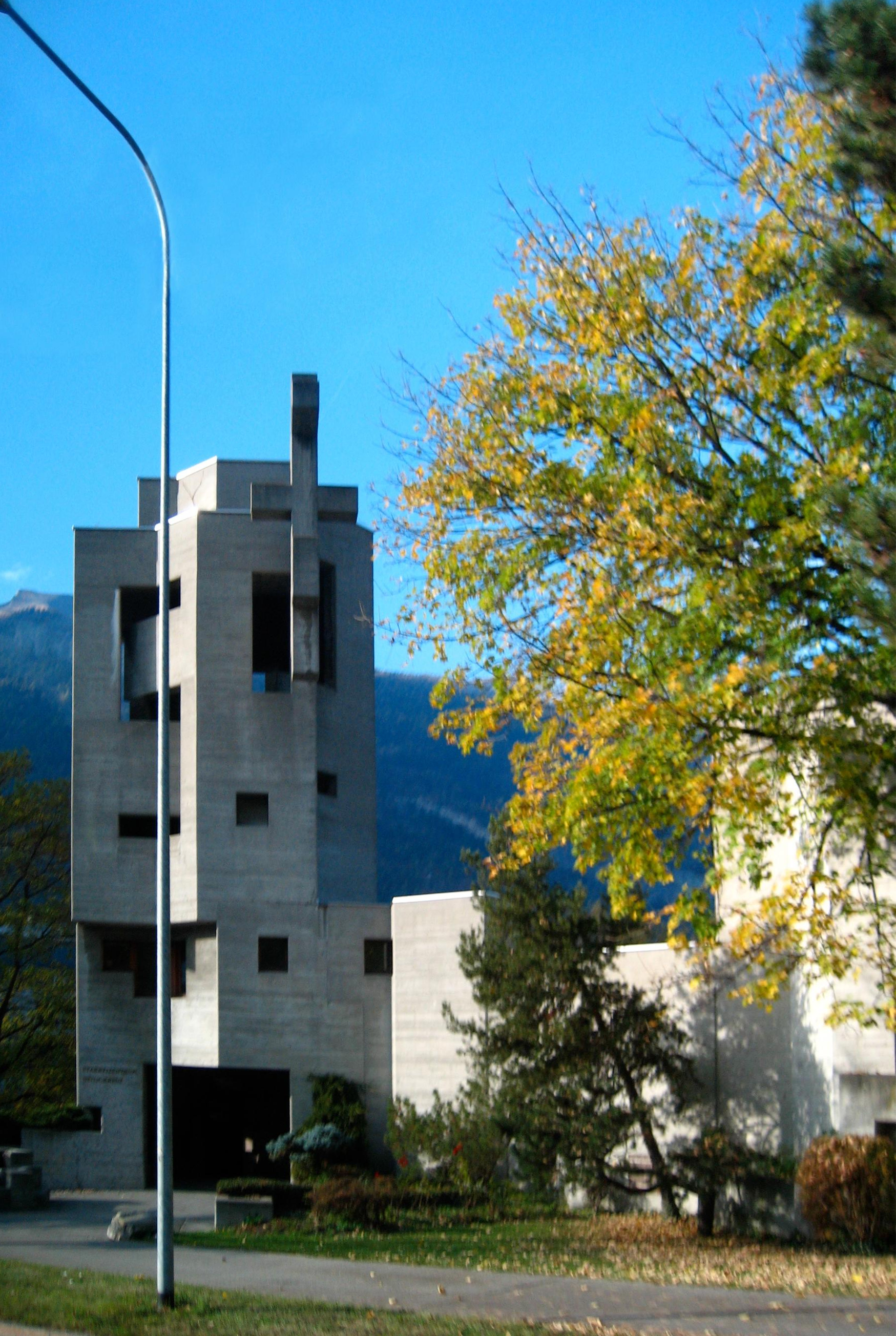 Catholic Church Centre in Chur, Switzerland